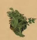 Stainton’s Natural History of the Tineina (1855–1873): Depressaria libanotidella apical leaves of Athamanta libanotis drawn together by larva